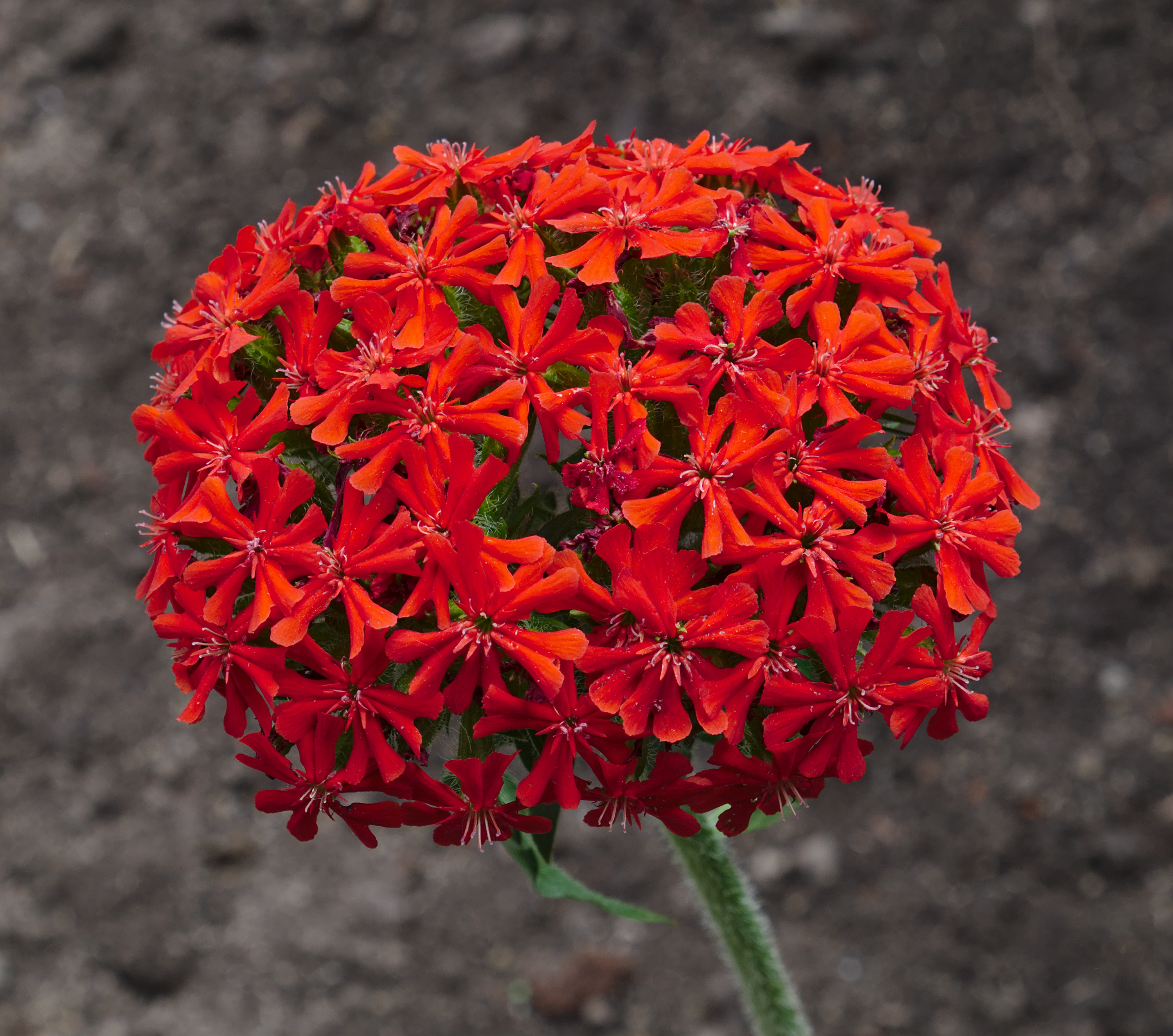 Lychnis chalcedonica flowers in a freshly plowed garden